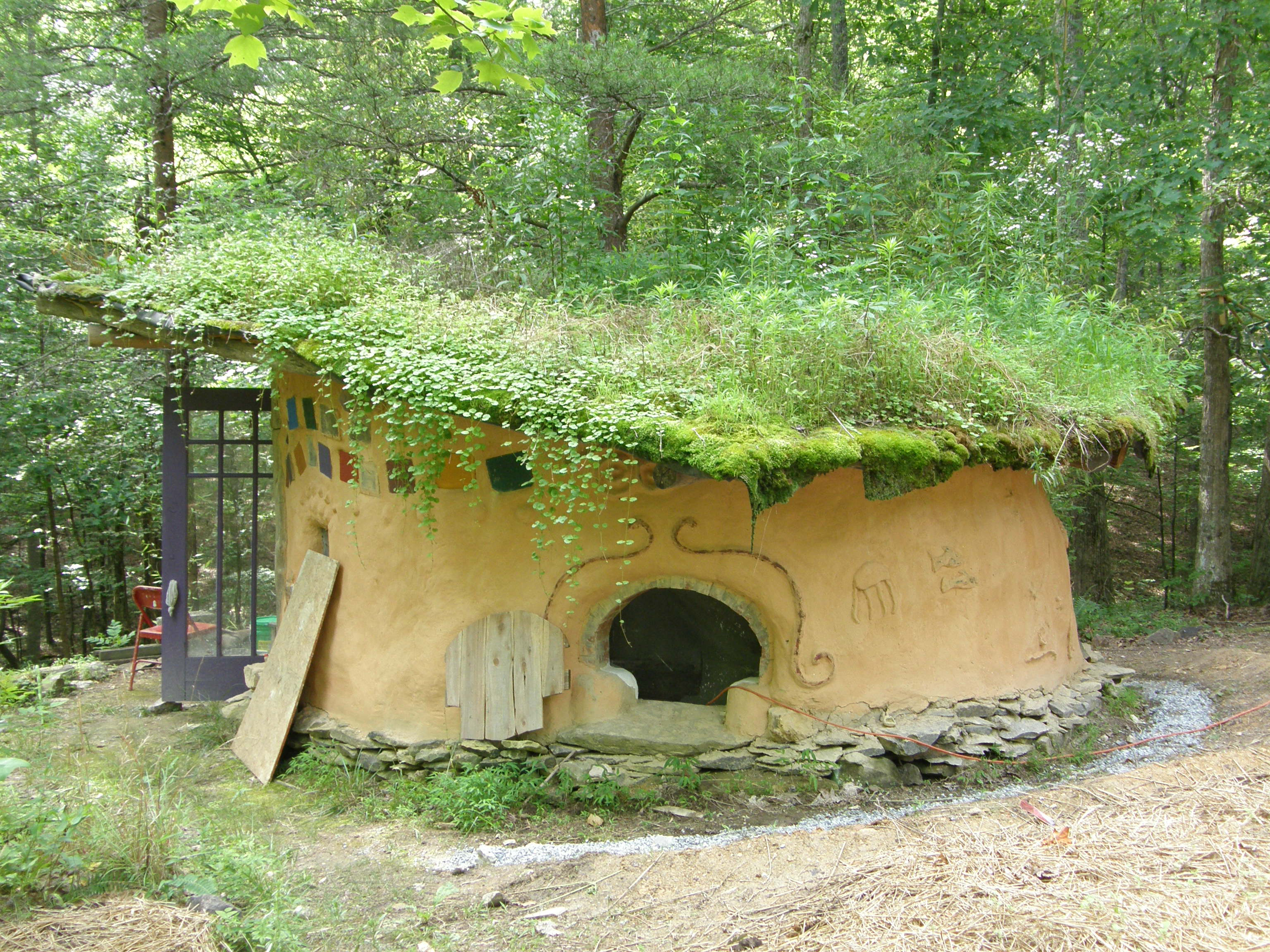 Small cob house, called a hippitat, at the Ecovillage Training Center, Summertown, Tennessee, USA.